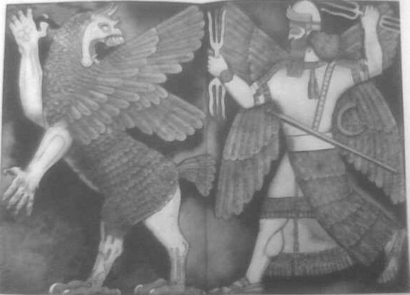 Marduk and the Dragon Marduk, chief god of Babylon, with his thunderbolts destroys Tiamat the dragon of primeval chaos. Other versions: File:Marduks strid med Tiamat.jpg and File:Bildhuggarkonst, Marduks strid med draken, Nordisk familjebok.png Source: scanned from Sacred Books of the East *Babylonia & Assyria* editorship by Prof. Charles F. Horne (copyright 1907).